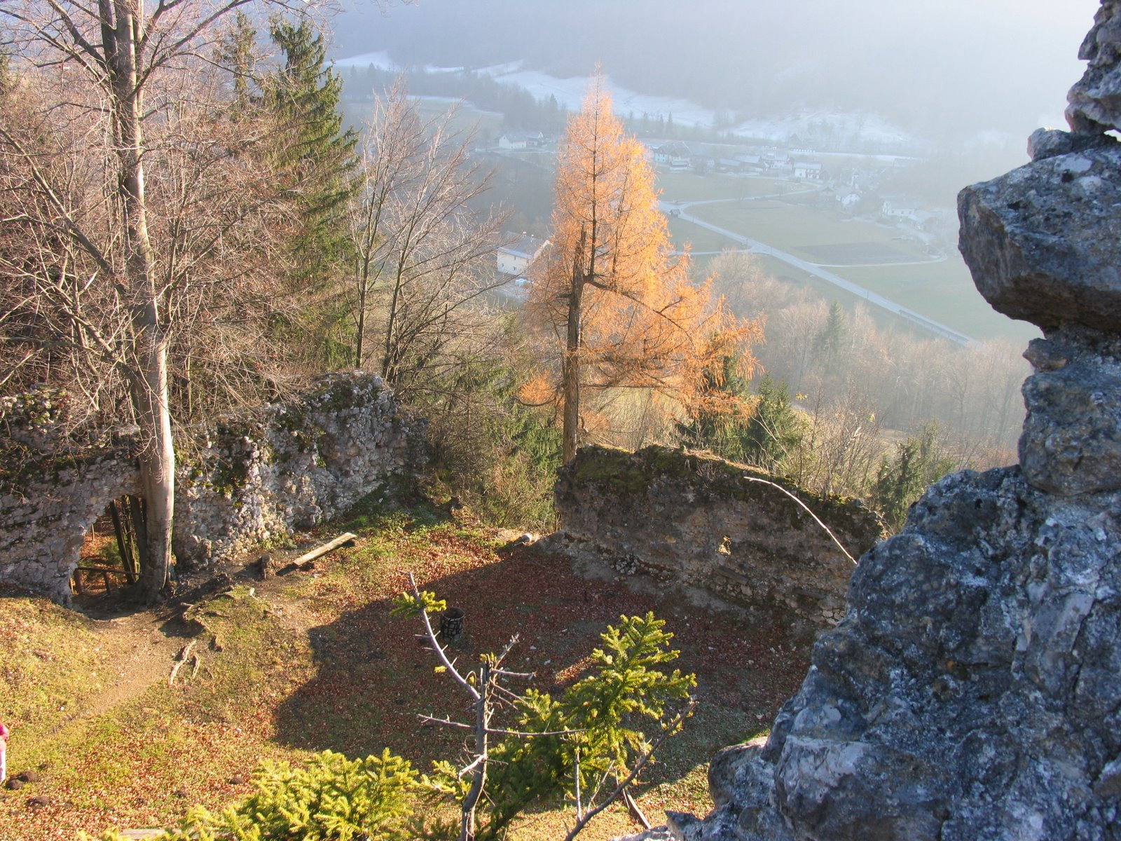 Pusti grad, castle ruins